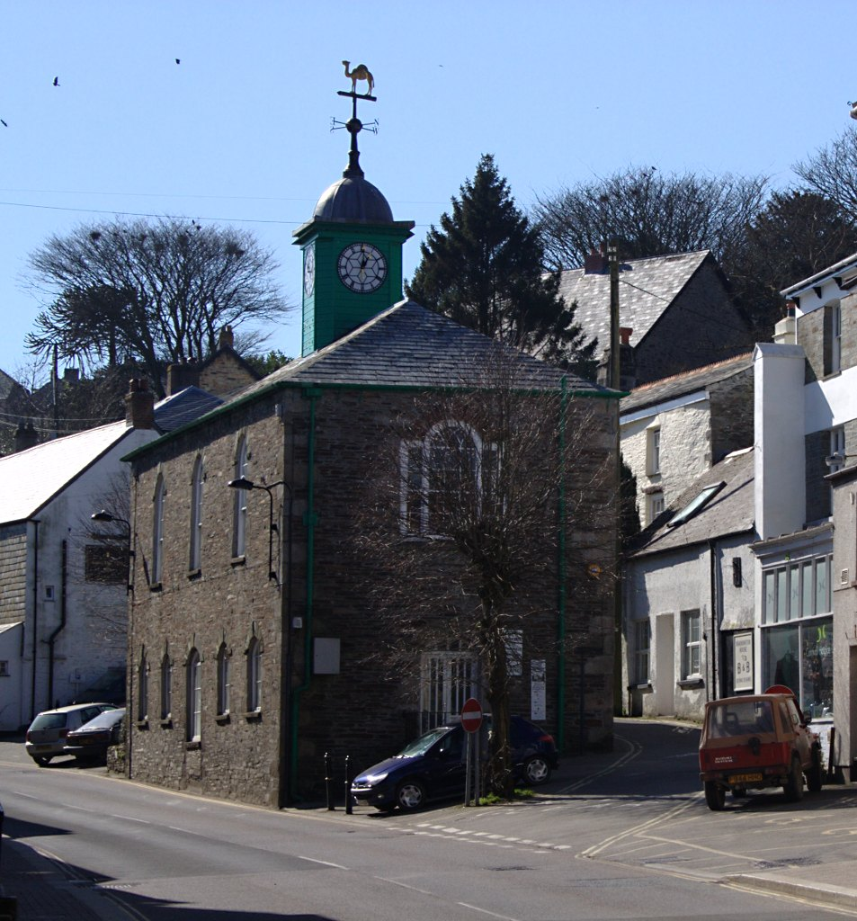 Camelford Town Hall This building also houses Camelford Library.